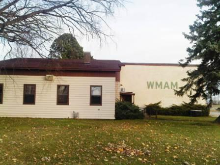 Photograph taken by myself, November, 2011, hereby released into public domain.